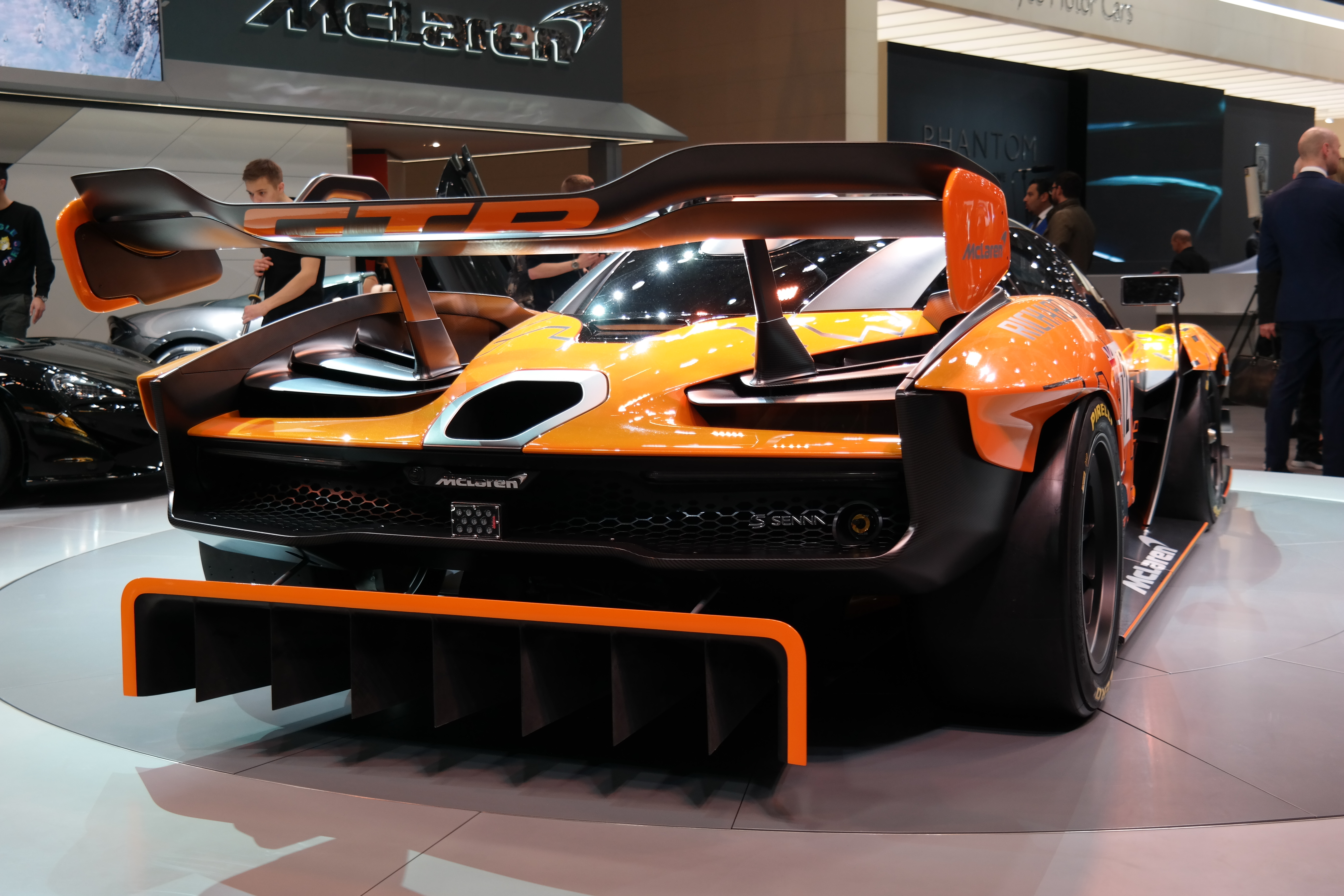 Geneva Motor Show 2018 (photo taken on the first press day)